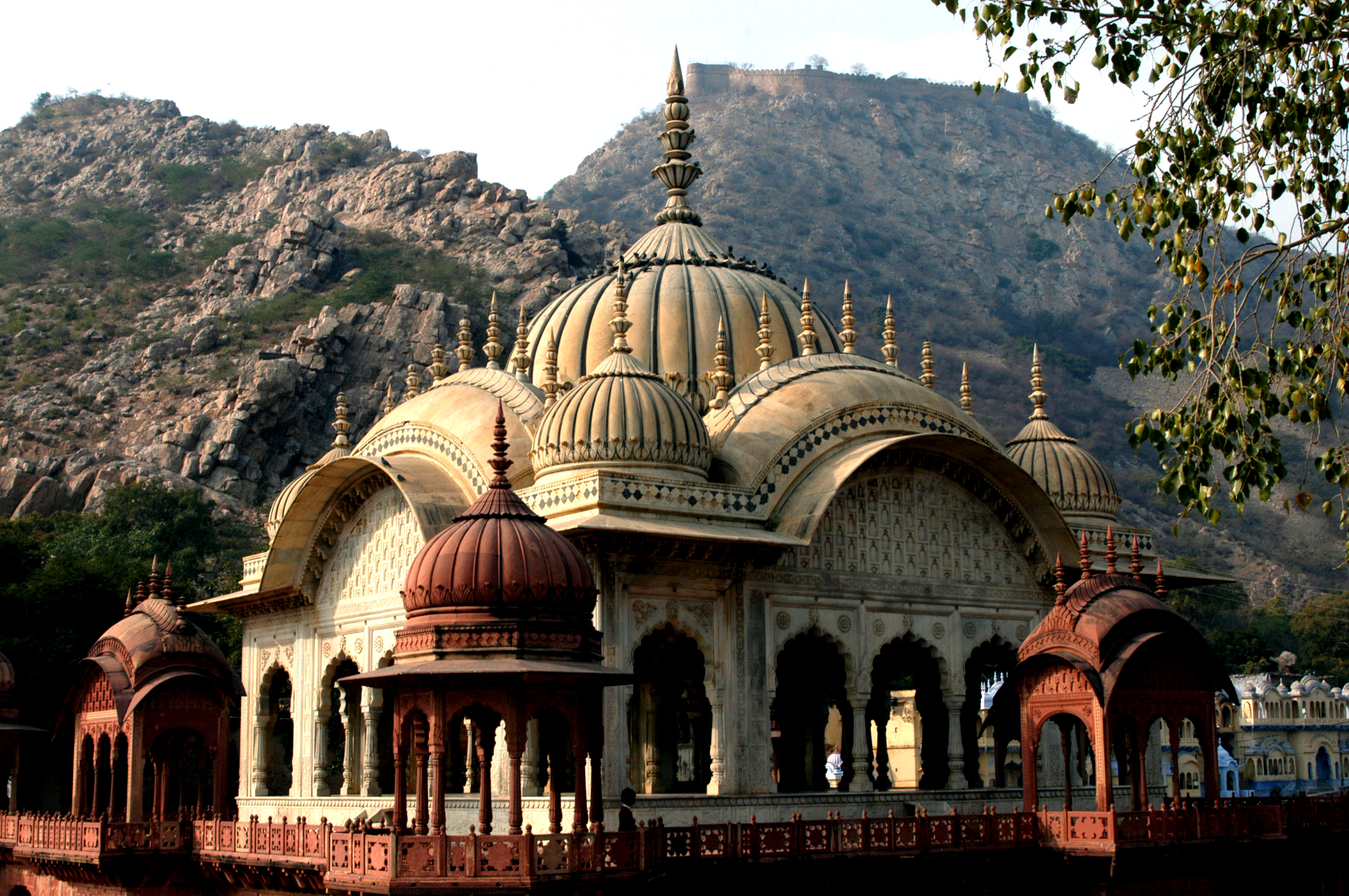 Cenotaph of Musi Maharani, S-RJ-19